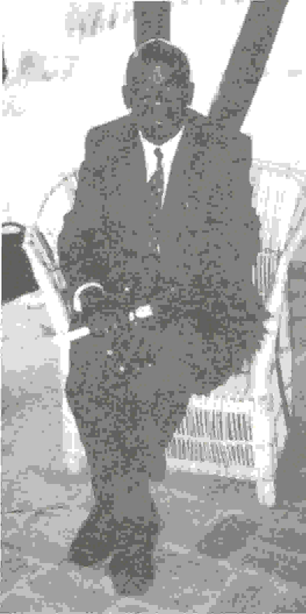 At his palace at Nang'oko, Mongu, Western Province of Zambia